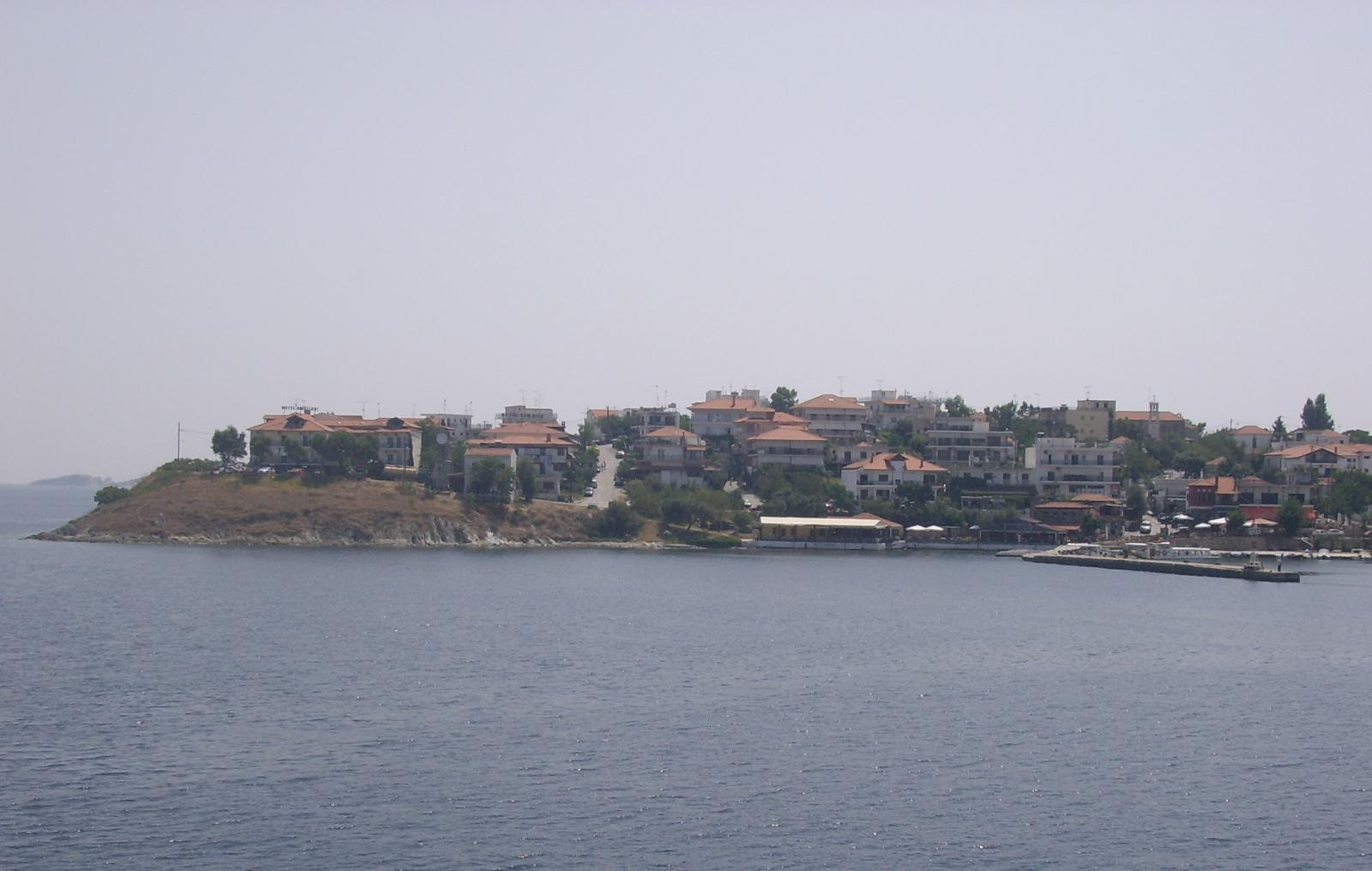 Amuliani Island